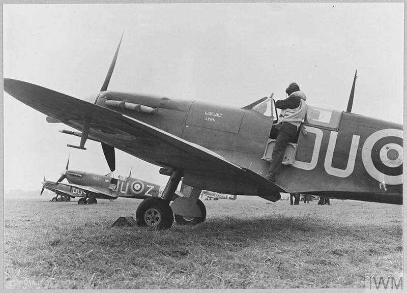 A pilot of No 485 (New Zealand) Squadron RAF climbs into the cockpit of his Supermarine Spitfire Mark VB at Redhill, Surrey. The second aircraft in line belongs to the Squadron's Commanding Officer, Squadron Leader M W B Knight.